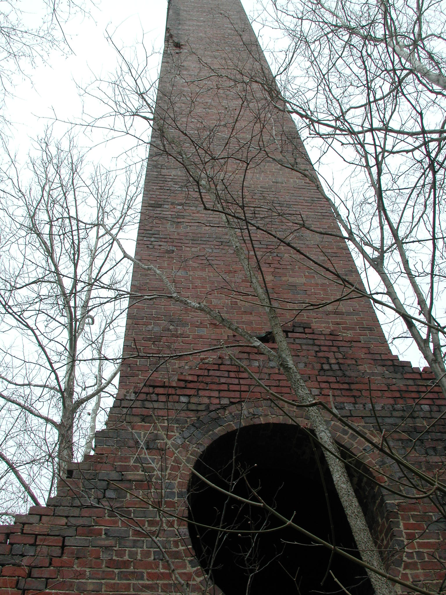 Old chimney at Sunday Creek Mine Number 6, east of Millfield, Ohio. A National Register site.